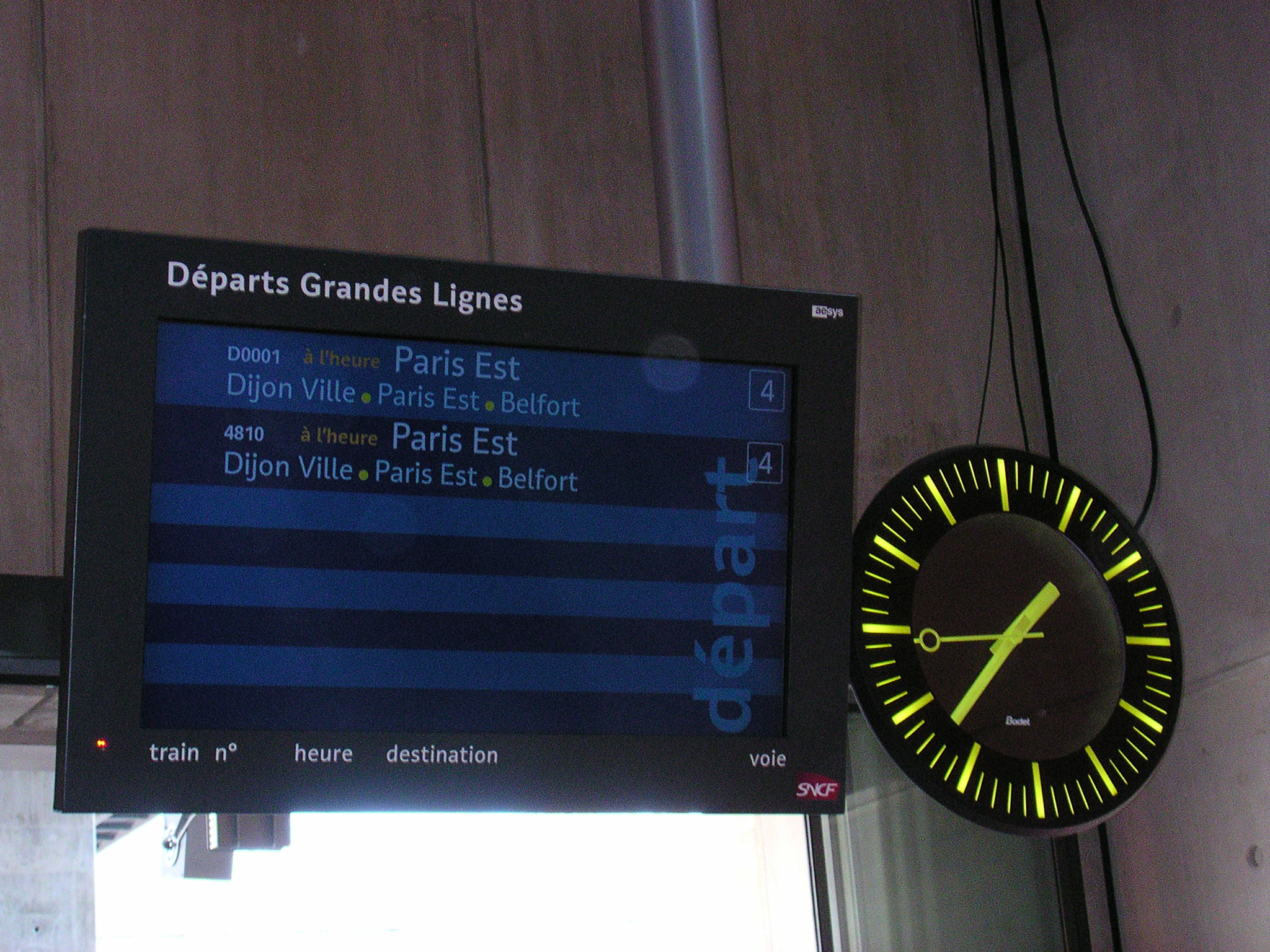 Information screen in the Besançon Franche-Comté TGV railway station on the day of its inaugural.